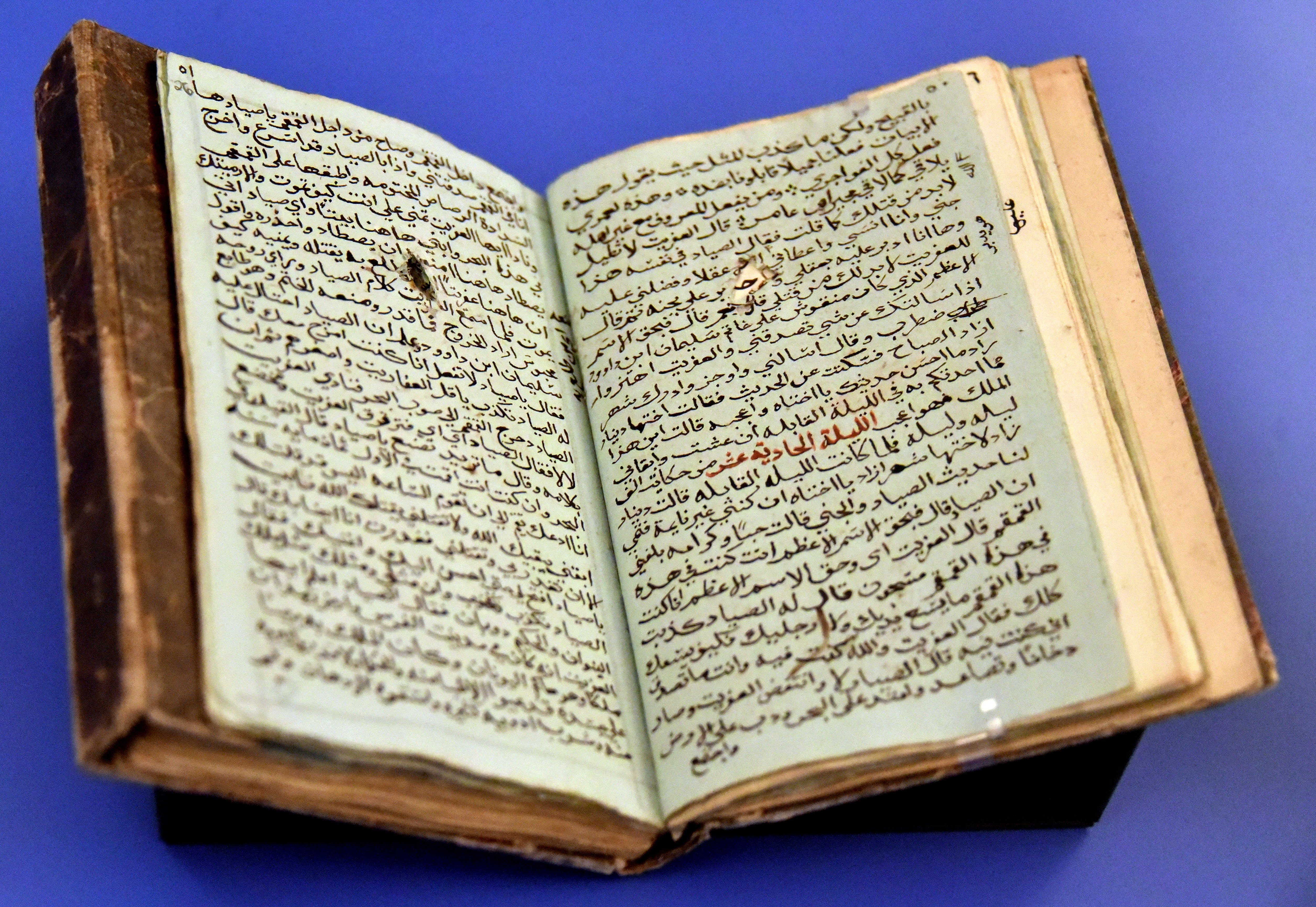 Arabic manuscript with parts of Arabian Nights, collected by scholar and traveler Heinrich Friedrich von Diez, 19th century CE. Unknown origin. It was displayed at the Neues Museum in Berlin, Germany, Exhibition of "Cinderella, Sindbad & Sinuhe, Arab-German Storytelling Traditions", April 18, 2019, to August 18, 2019. Berlin State Library, Prussian cultural heritage, Orient Department (Staatsbibliothek zu Berlin, Preußischer Kulturbesitz, Orientabteilung, Diez A oct. 183).